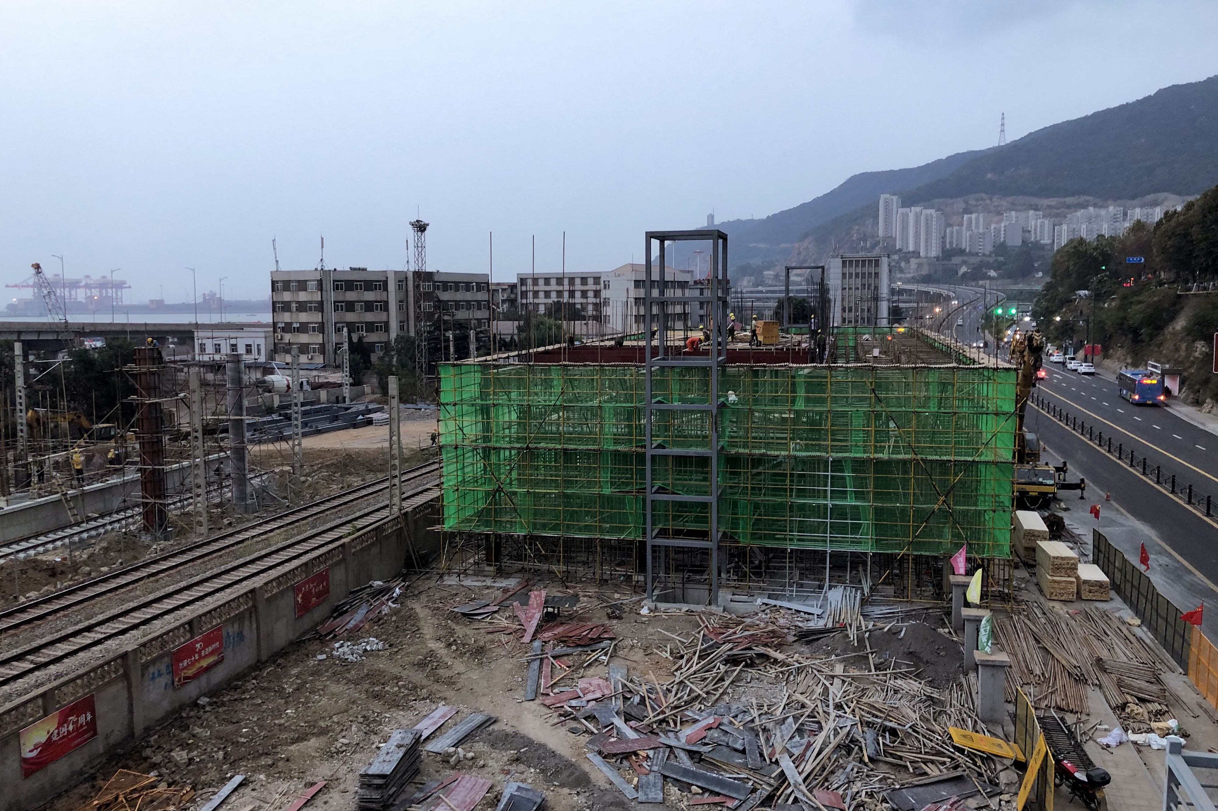 Lianyungang Suburban Railway will use CRH6F-A on the east portion of Longhai Railway: Lianyungang - Yantuo - Lianyungangdong - Xugou - Lianyun.